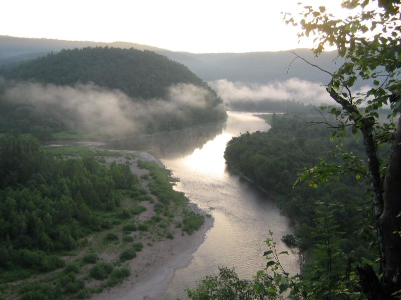 River Inzer.